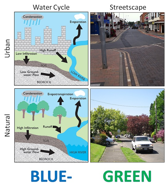 An image showing the comparison of hydrologic (water cycle) and environmental (streetscape) attributes in conventional (upper) and Blue-Green Cities. Two photographs of city streets are included.